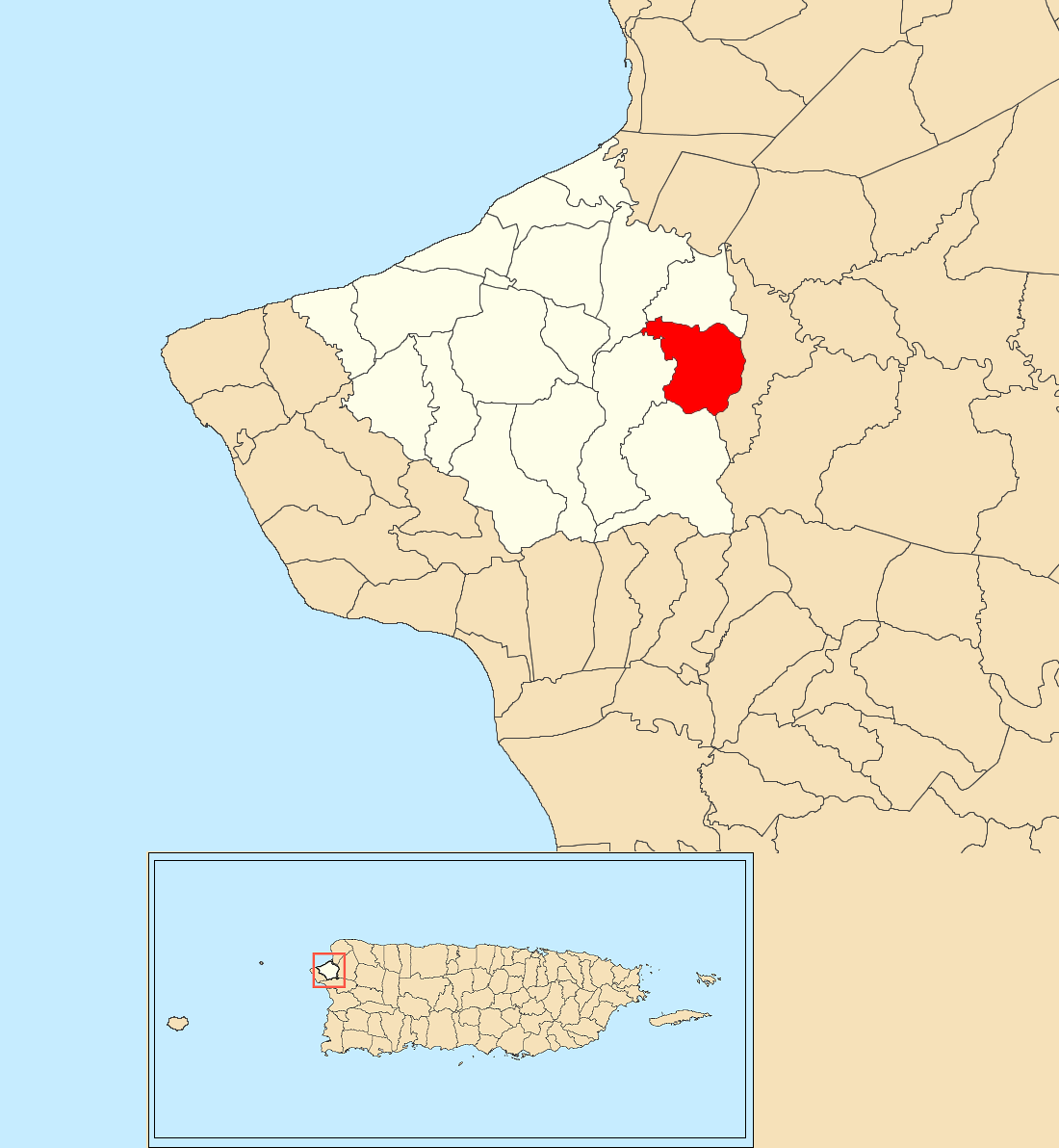 Marías, Aguada, Puerto Rico locator map